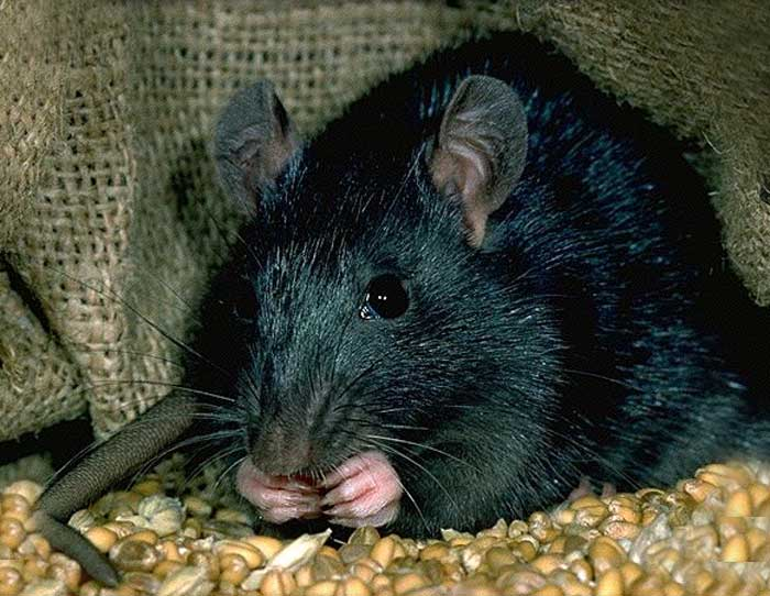 a rat